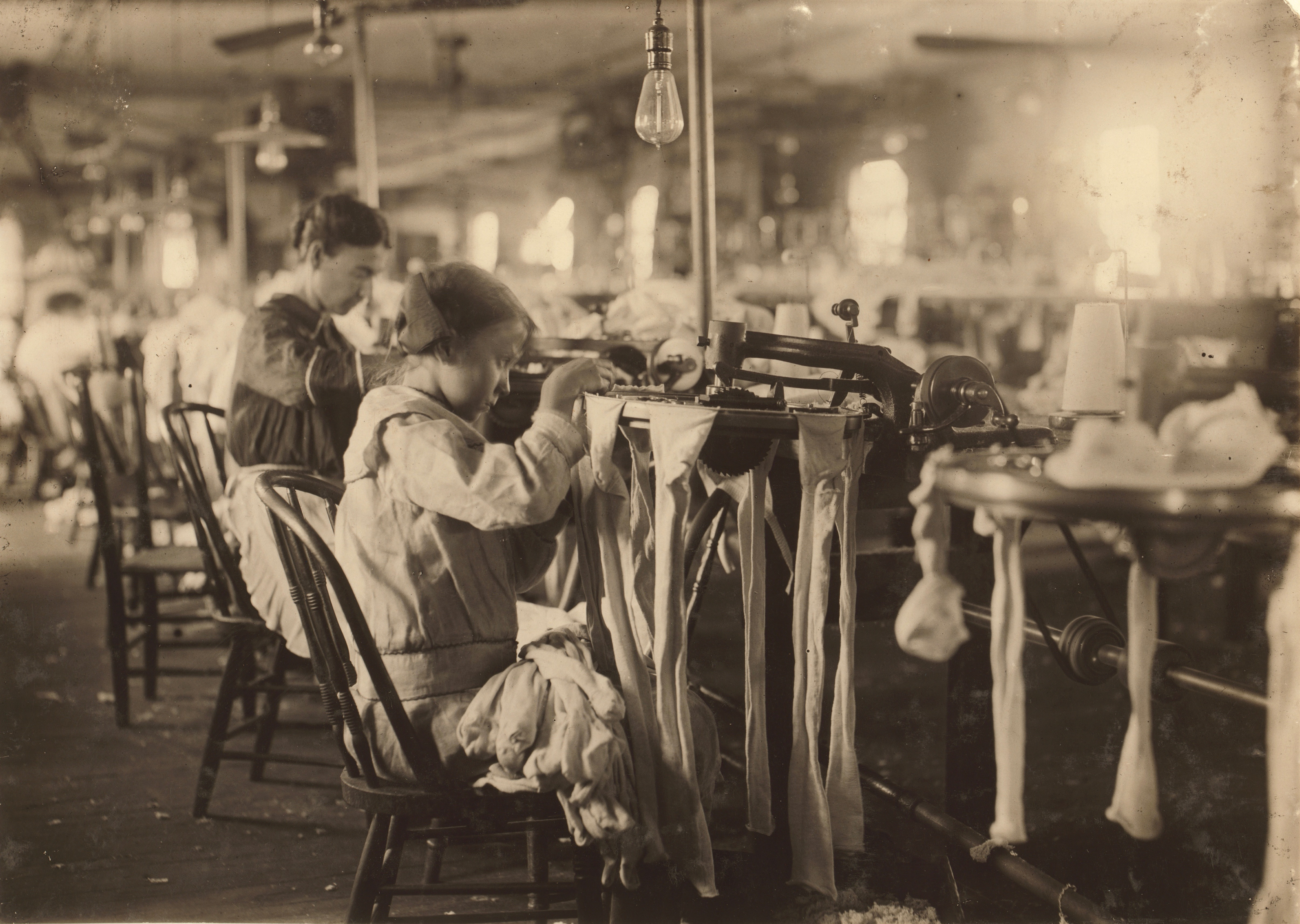 Nannie Coleson, looper who said she was 11 years old, and has been working in the Crescent Hosiery Mill for some months. Makes about $3 a week. Has been through the 5th grade in school. She is bright, but unsophisticated. Told investigator, "There are other little girls in the mill too. One of them, says she's 13, but she doesn't look any older than me." Location: Scotland Neck, North Carolina.